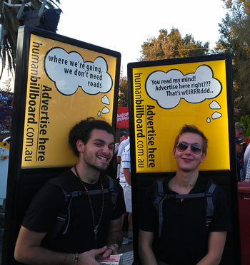 .au in Melbourne